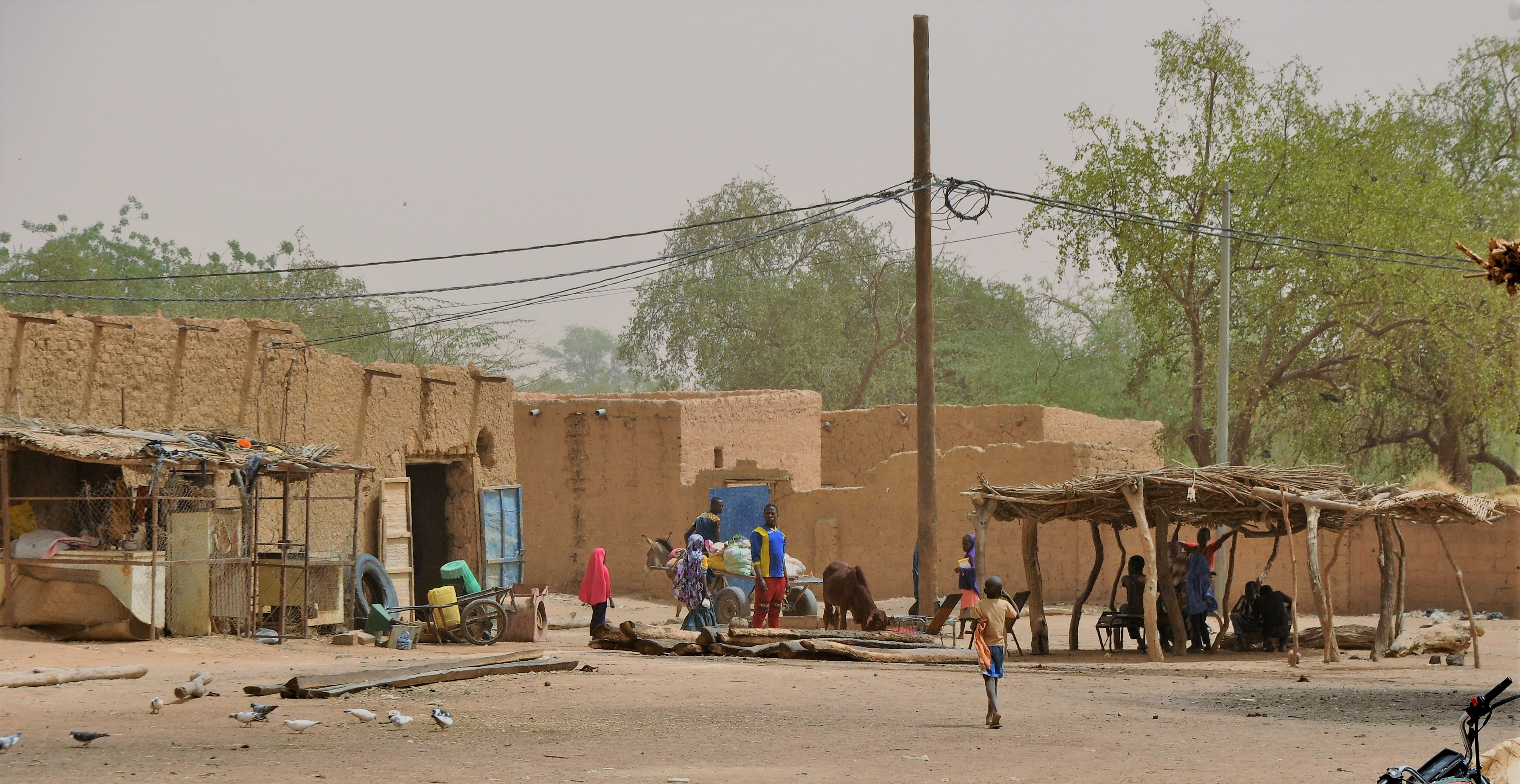 Daily scene in downtown Filingué (Filingué Department, Tillabéri Region), Niger.